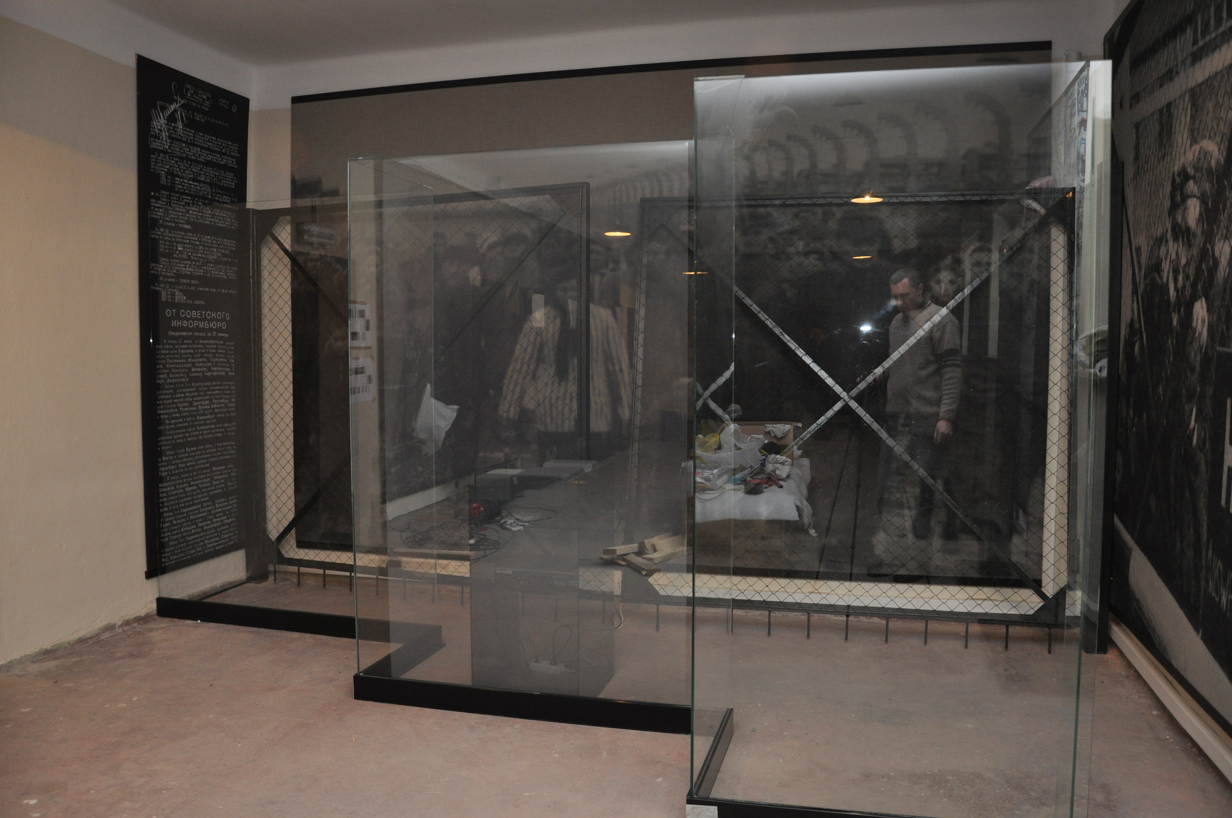 Smart Glass Projection Screen - On